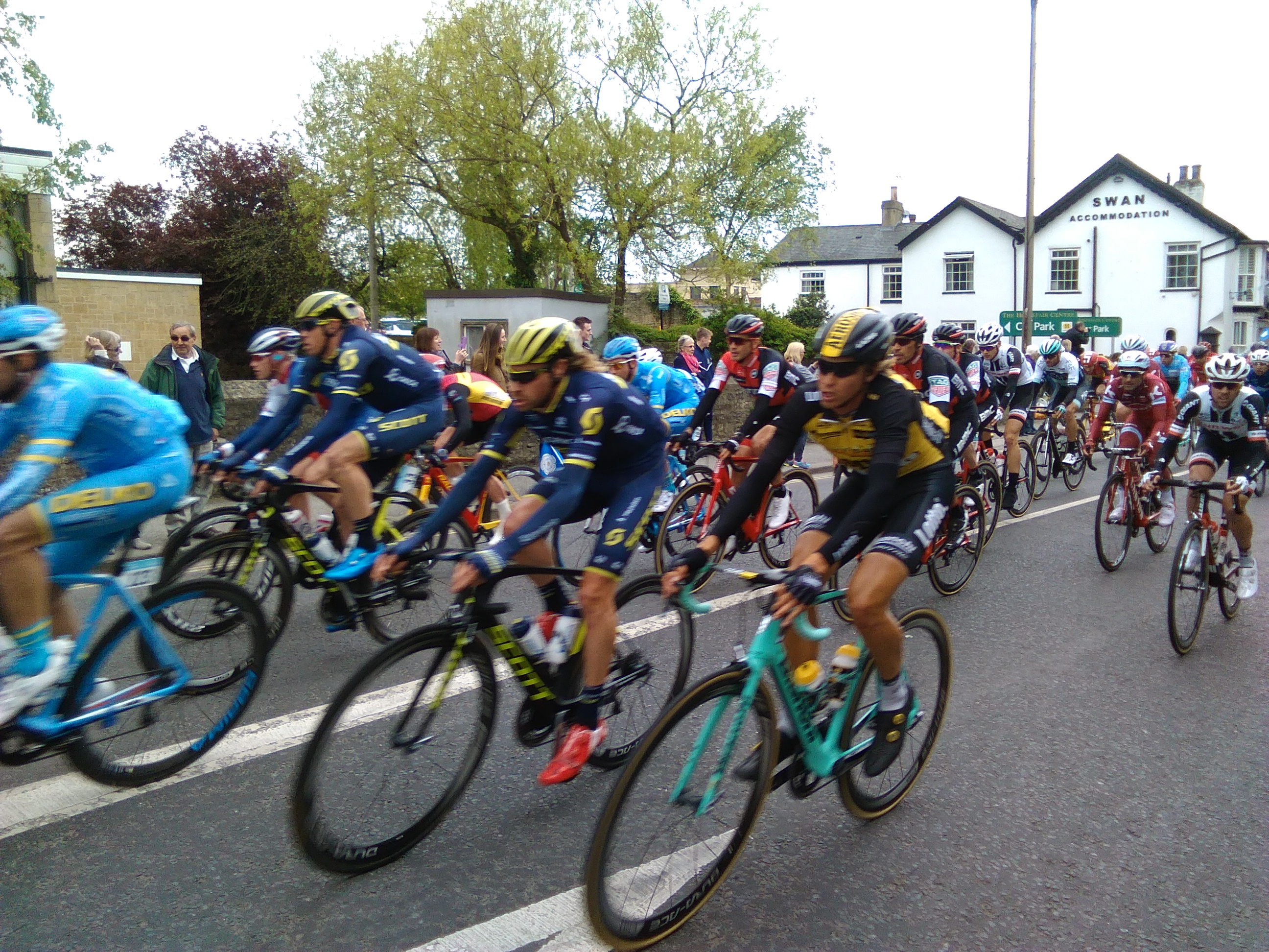 The second day of the 2017 Tour de Yorkshire seen on North Street in Wetherby, West Yorkshire. The peleton set off from Tadcaster just after two O'clock and is heading in a roundabout way to Harrogate. Taken on the afternoon of Saturday the 29th of April 2017.